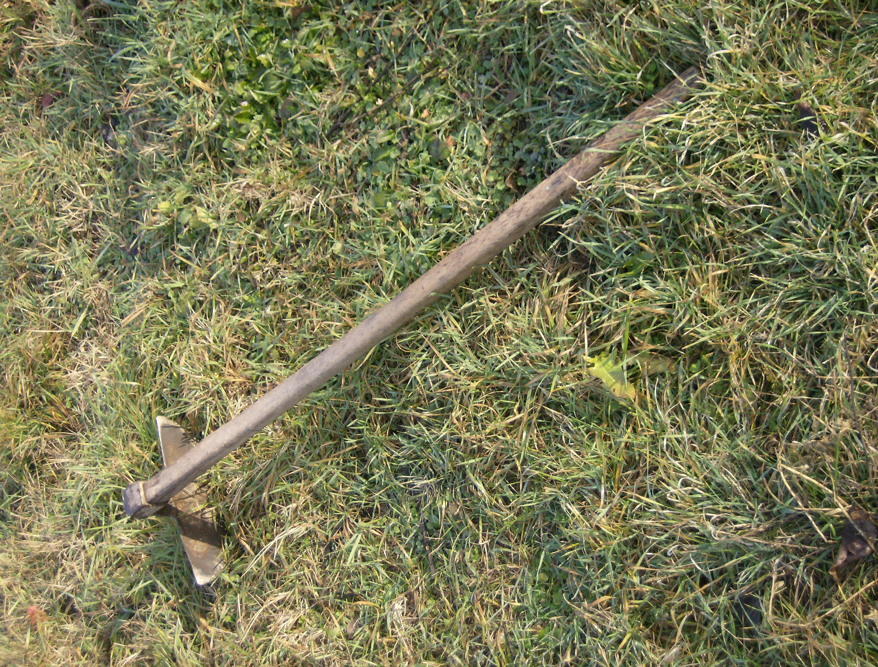 Hoe (tool)